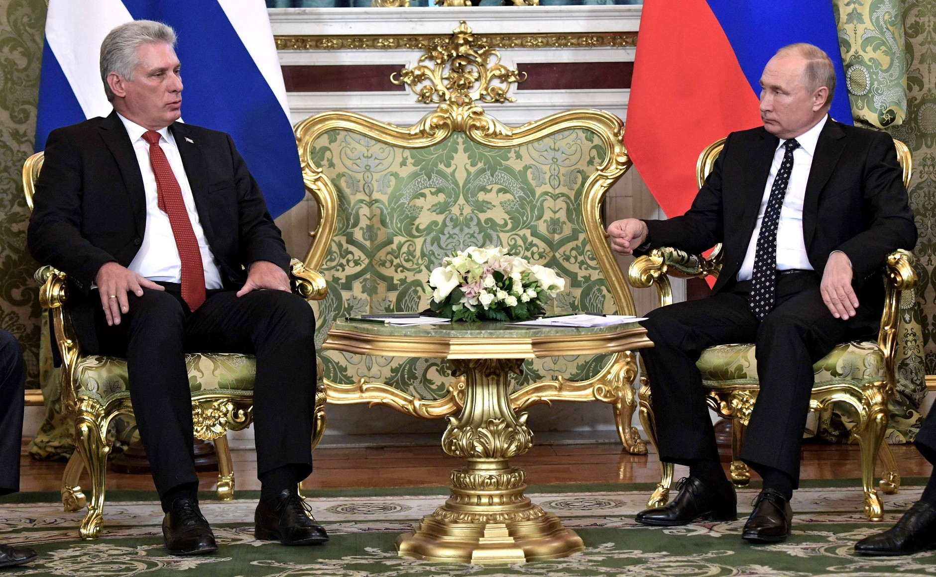 The Kremlin is hosting talks between Vladimir Putin and Chairman of the Cuban State Council and the Council of Ministers Miguel Diaz-Canel Bermudez, who is in Russia on an official visit.